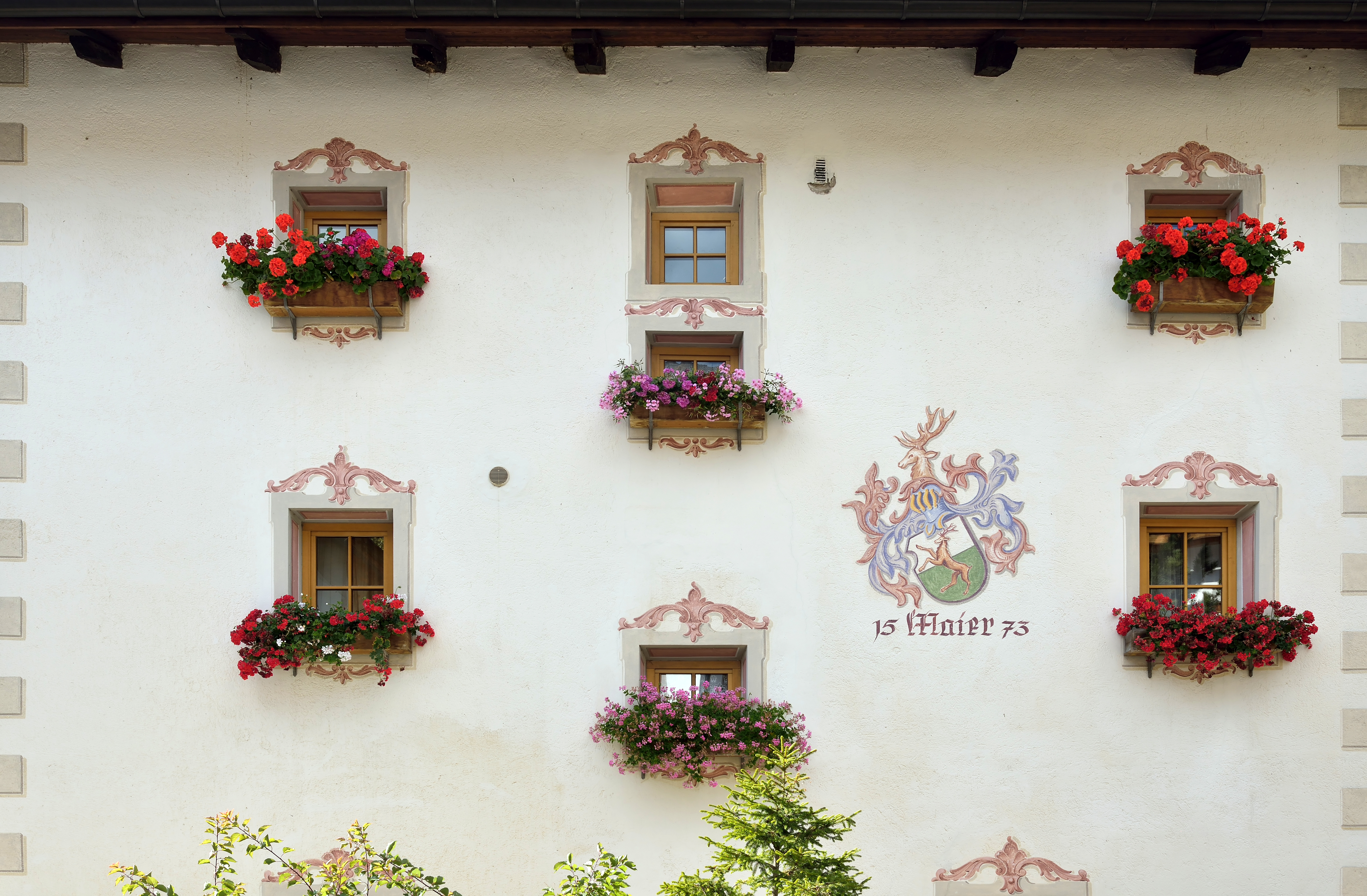 Farmhouse "Colz" in La Val